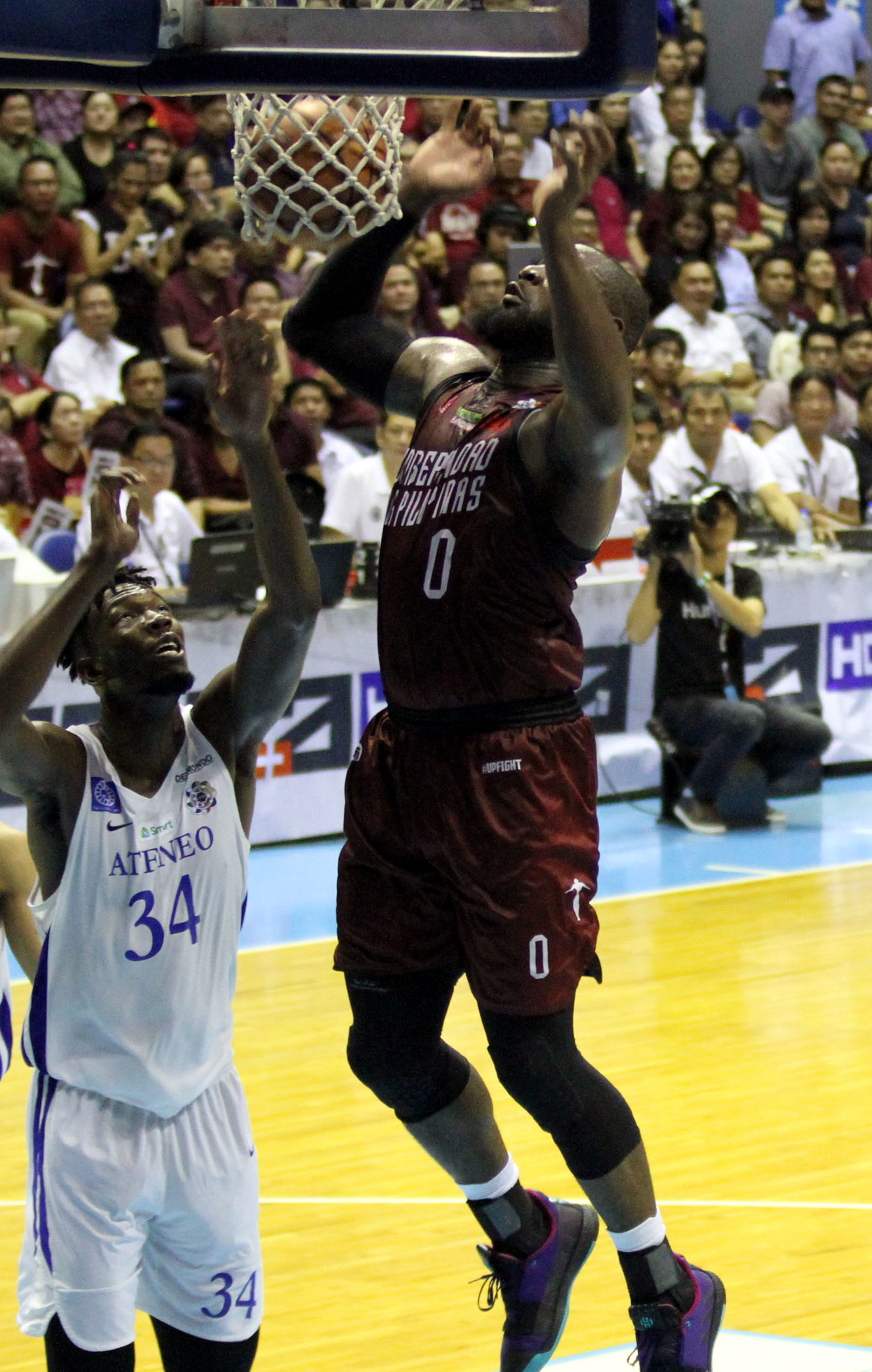 University of the Philippines (UP) Center Bright Akhuetie goes for a dunk during their do-or-die match against defending champion Ateneo Blue Eagles at the Smart Araneta Coliseum in Cubao, Quezon City on Wednesday (Dec. 5, 2018). The Blue Eagles routed the Maroons, 99-81, to win the back-to-back UAAP men's basketball championship.